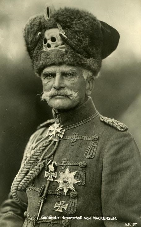 General Feldmarschall August Von Mackensen.